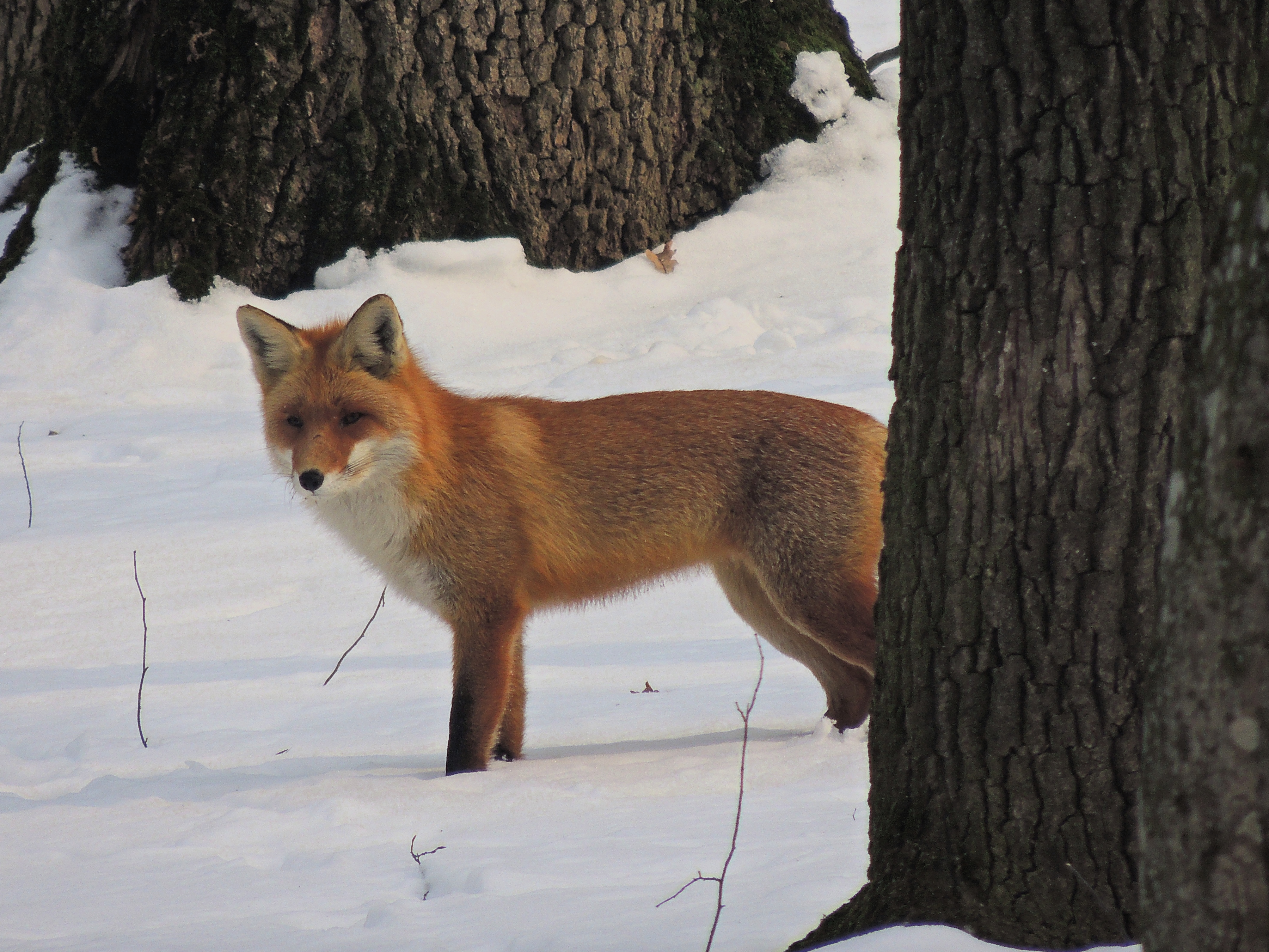 red fox Rotfuchs vulpe